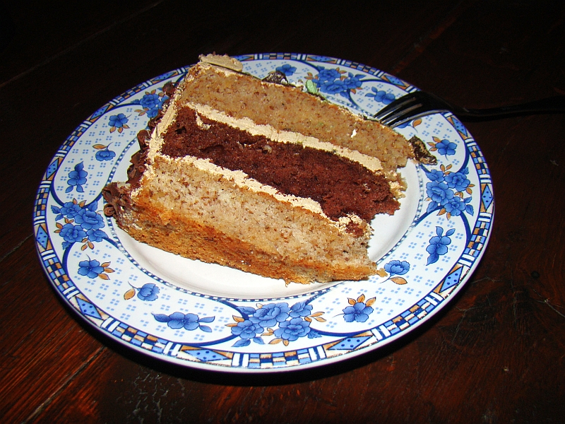 walmut cake